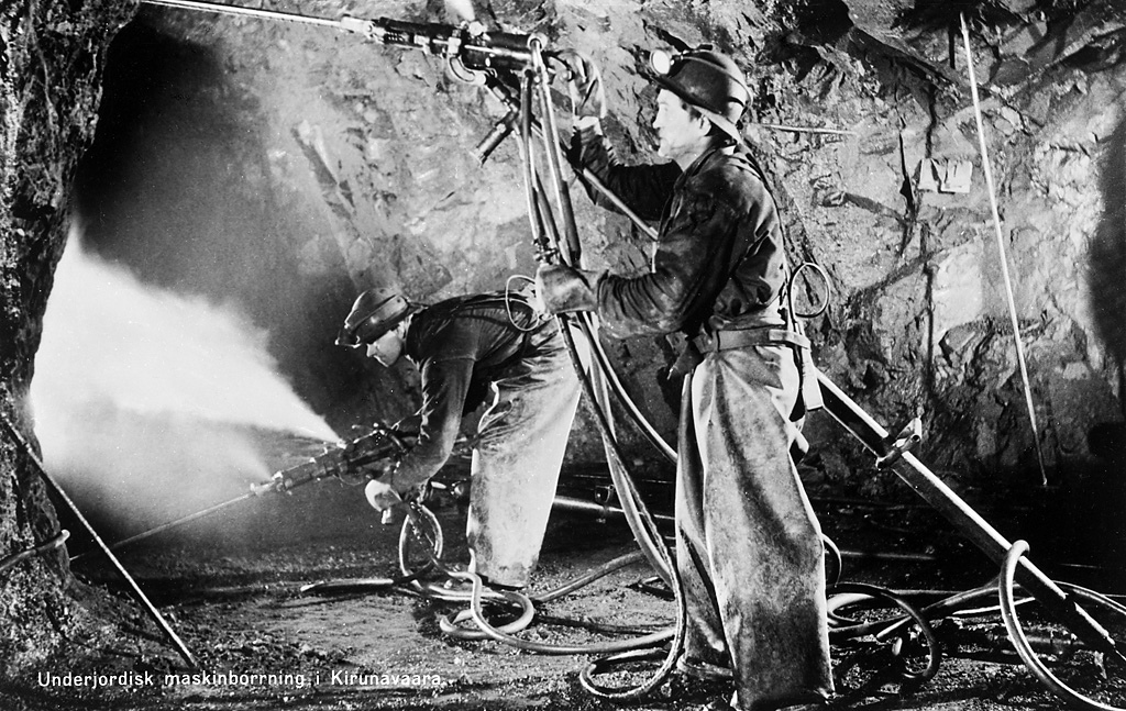 Miners drilling in the Kiirunavaara mine in Lapland. Gruvarbetare som borrar i Kiirunavaara gruva. Parish (socken): Kiruna Province (landskap): Lappland Municipality (kommun): Kiruna County (län): Norrbotten Photograph by: Unknown. Almquist & Cöster Date: 1940-1959 Format: Cliché, film with text Persistent URL: Read more about the photo database (in english)